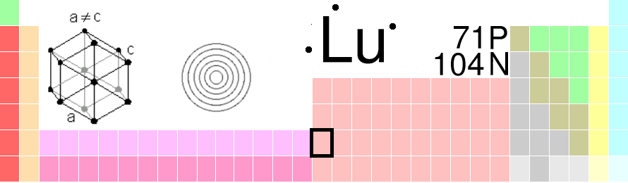 Image by Daniel Mayer or GreatPatton and released under terms of the GNU FDL